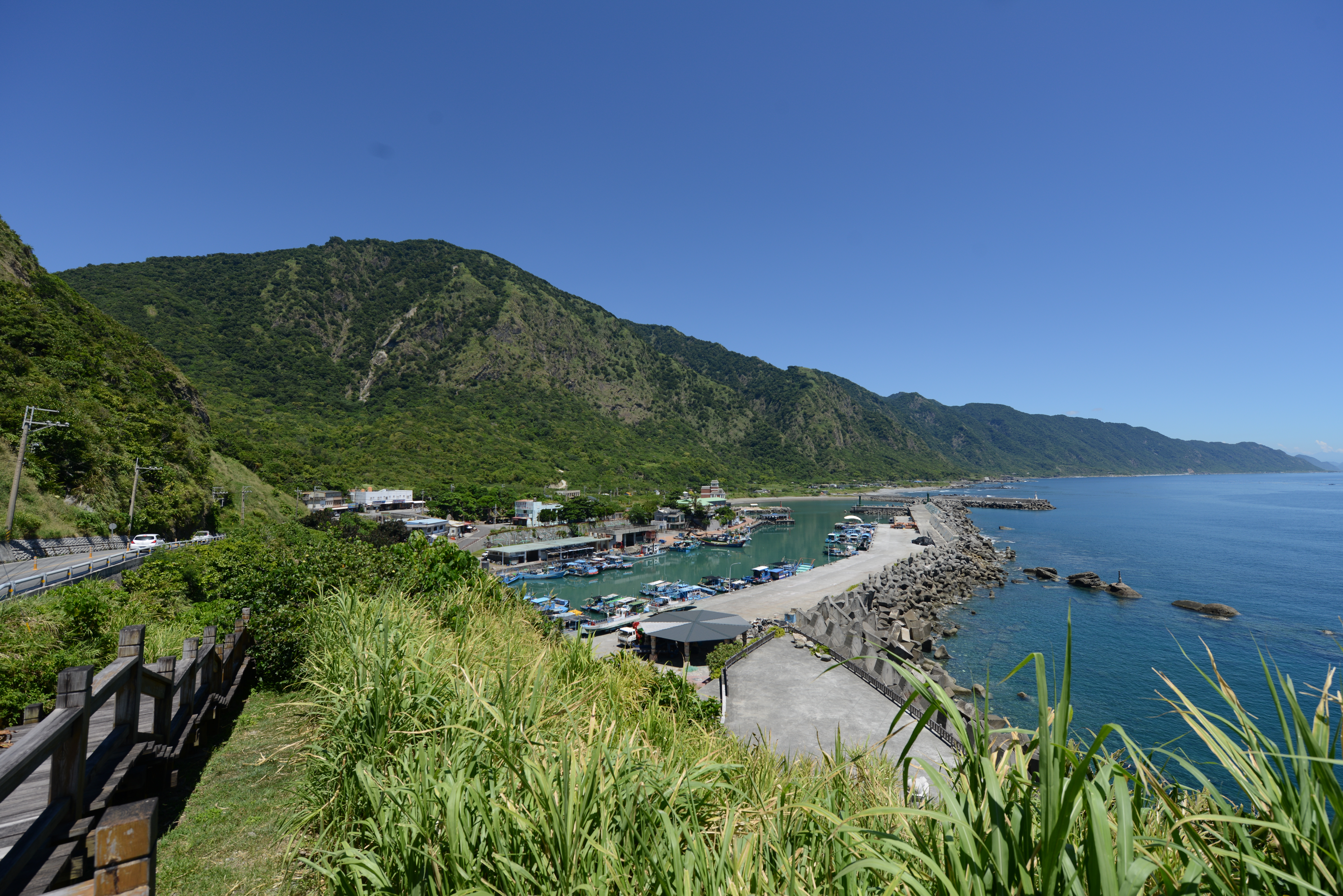 Mountains behind Shitiping Fishing Port.